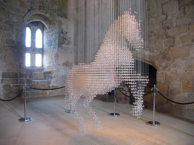 Lucky Spot Stella McCartney's amazing glass horse was displayed in the Great Hall of Belsay Castle in 2004.